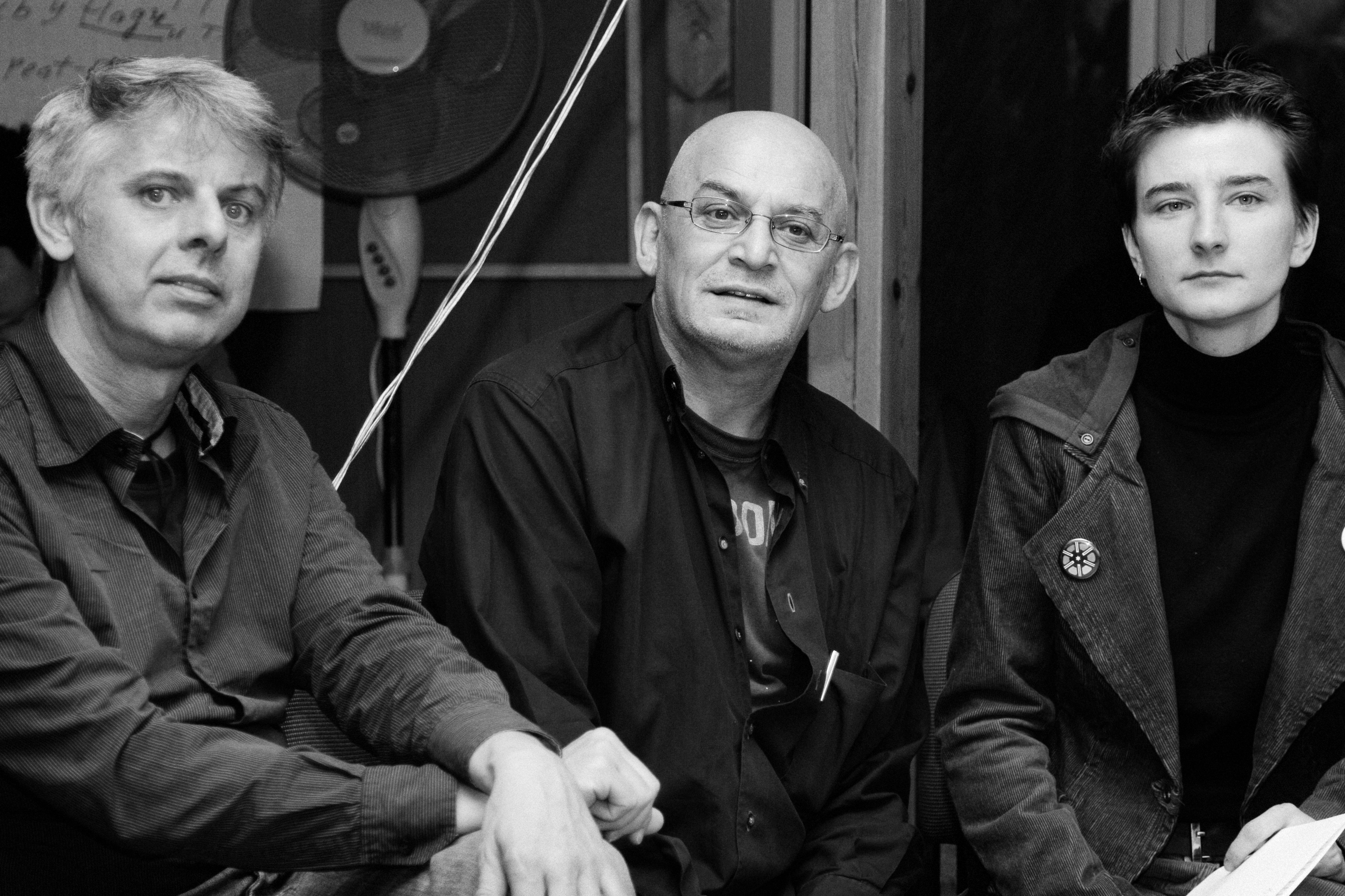 Klaus Mabel Ascheneller. International Gay and Lesbian Film Festival «Side by Side» 2008